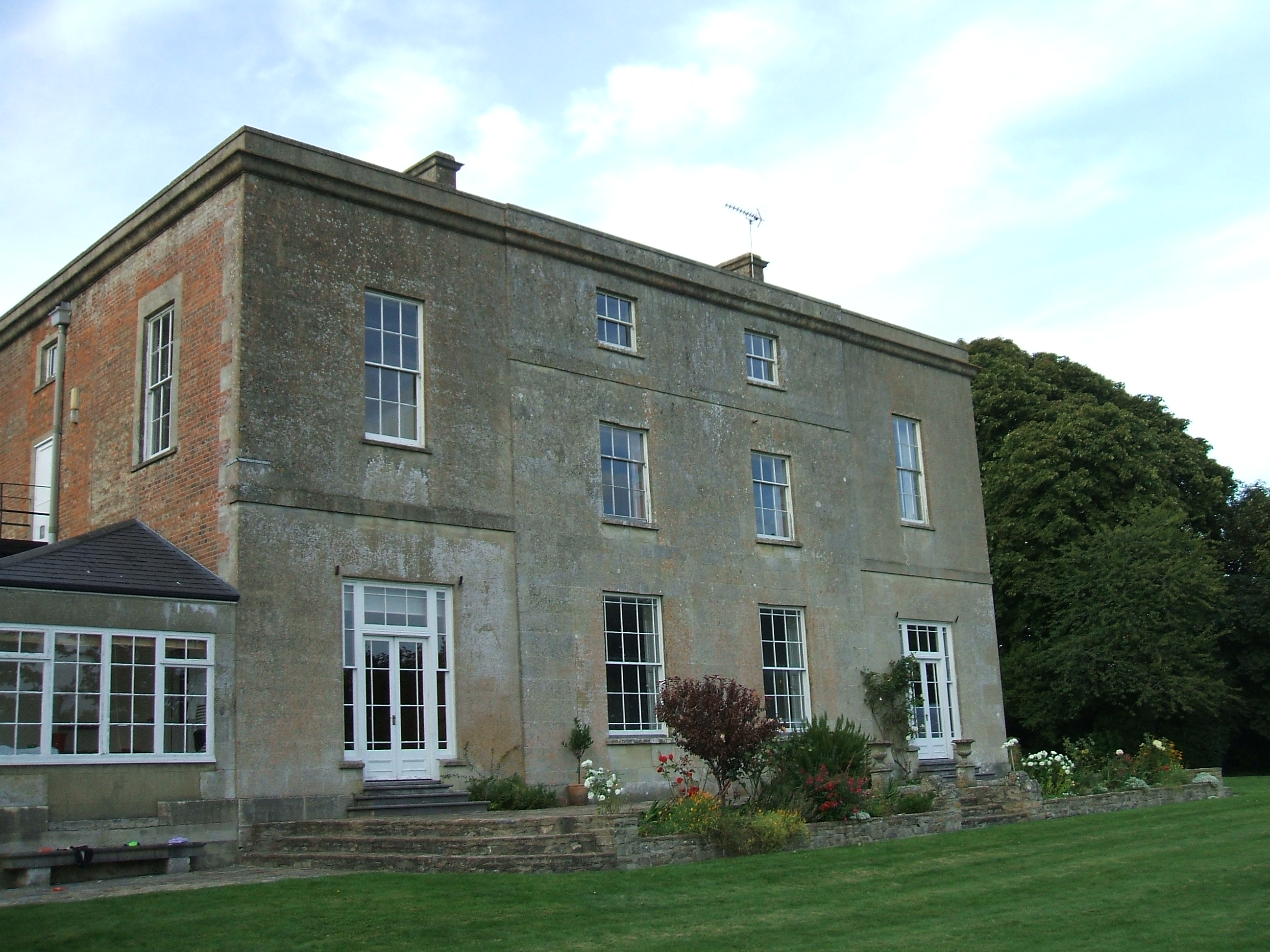 South Facade of Ashton Gifford house, taken from the south west corner looking back at the house. August 2007.